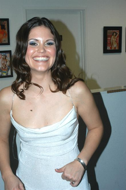 Selena Silver, taken behind-the-scenes of the webcast DP Tonight on June 22, 2004.